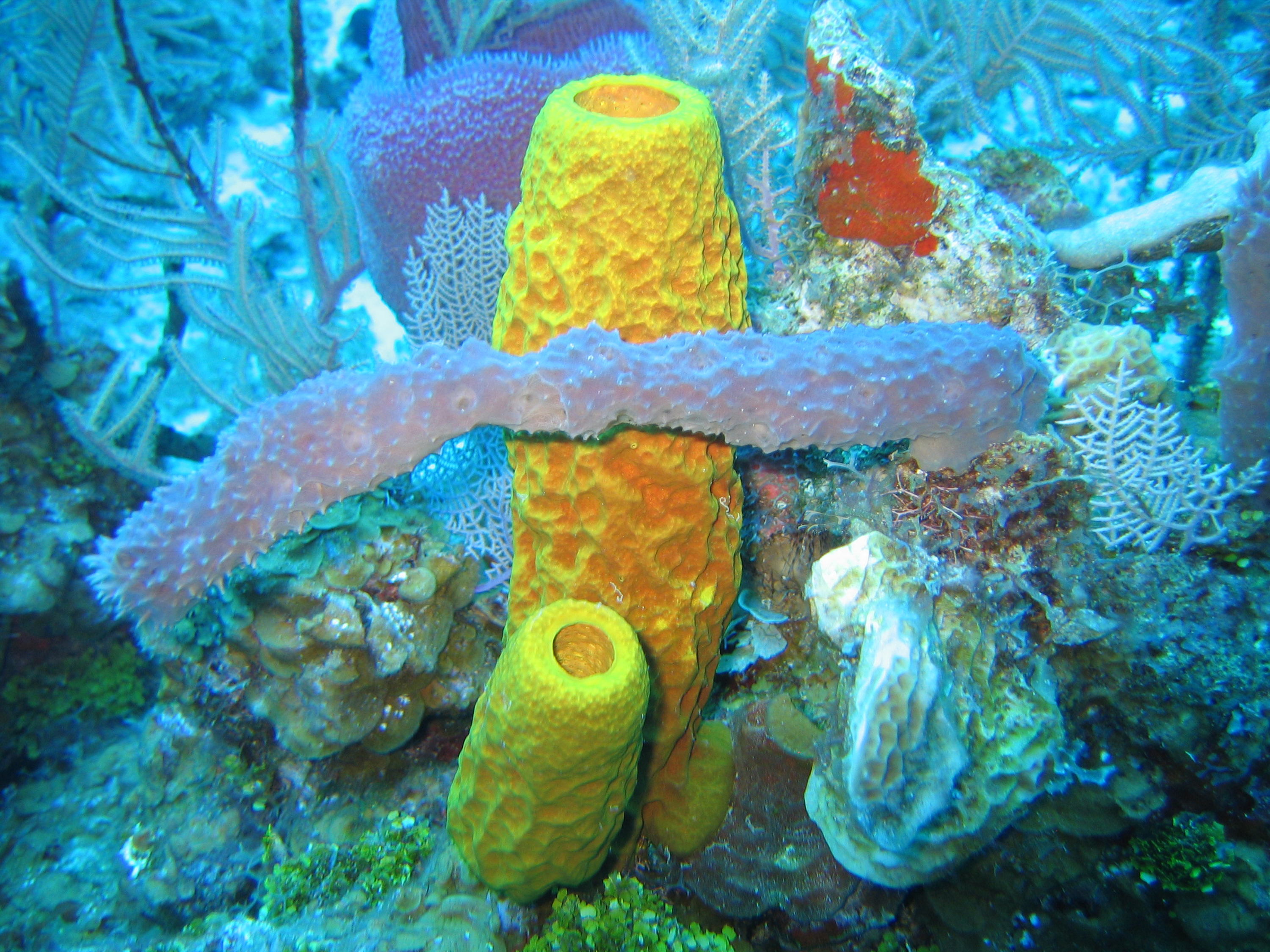 Sponge biodiversity and morphotypes at the lip the wall site in 60 feet of water . Included are the yellow tube sponge, Aplysina fistularis, the purple vase sponge, Niphates digitalis, the red encrusting sponge, Spiratrella coccinea, and the gray rope sponge, Callyspongia sp. Caribbean Sea, Cayman Islands. May 23, 2007.